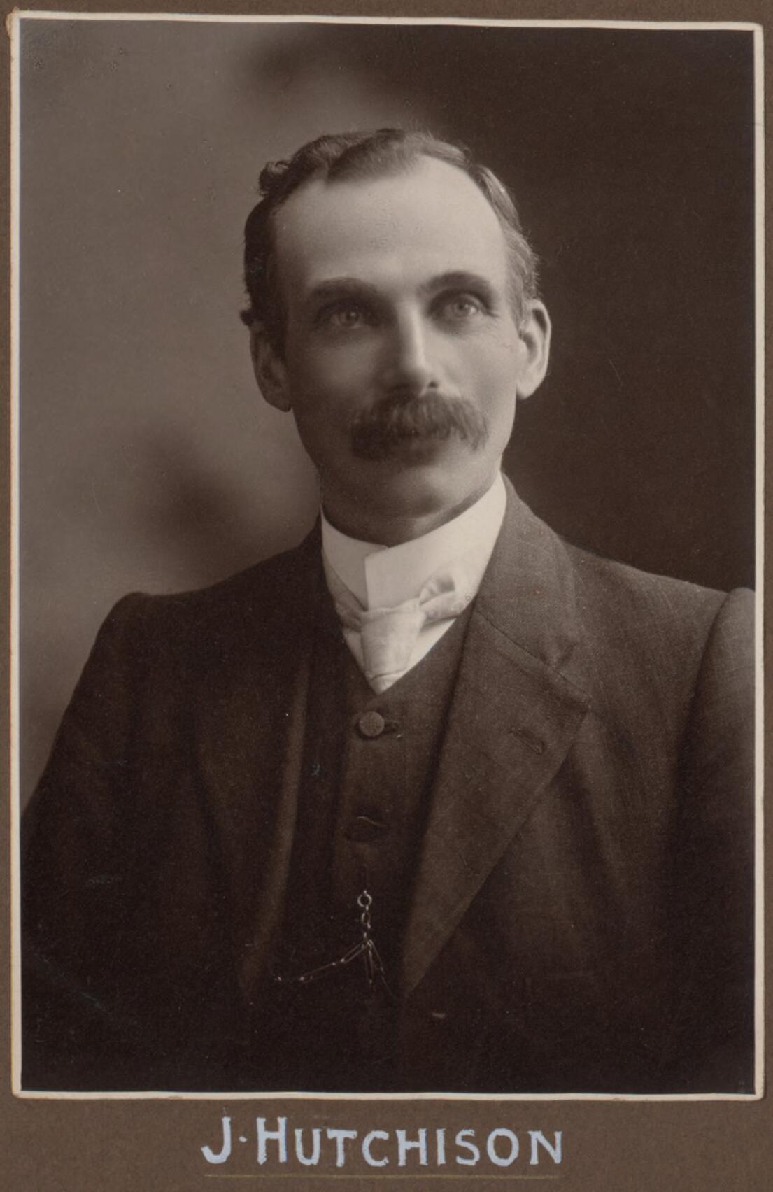 Australian politician James Hutchison